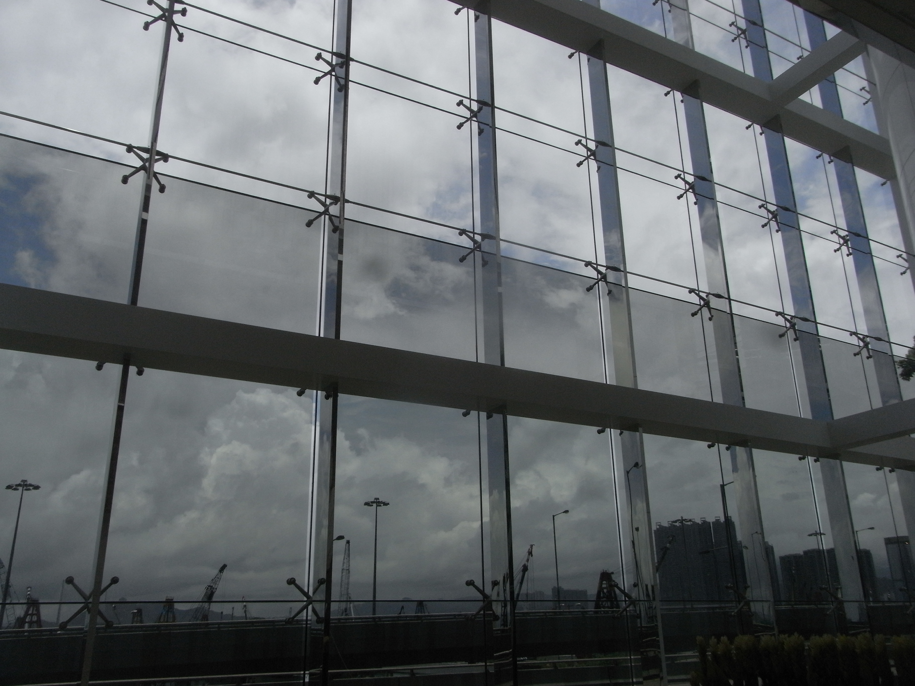 天璽zh-yue:Clubhouse